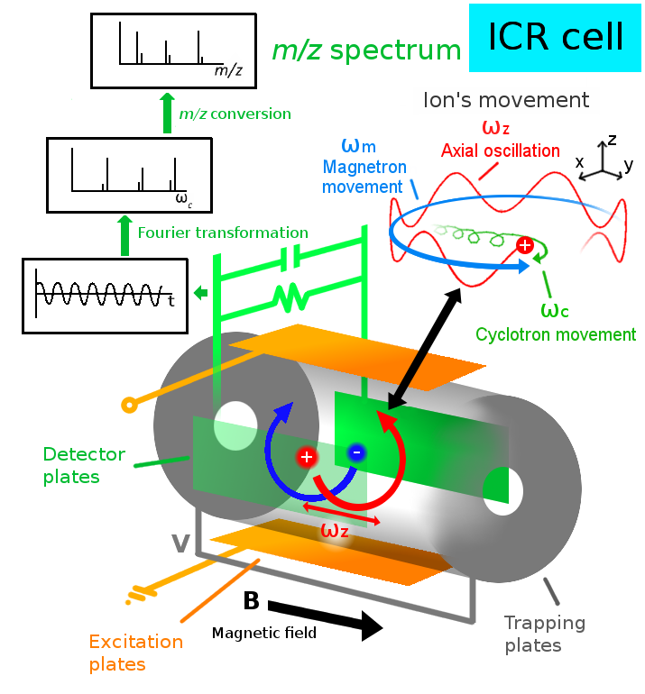 ICR cell schematic of a FTICR mass spectrometer.